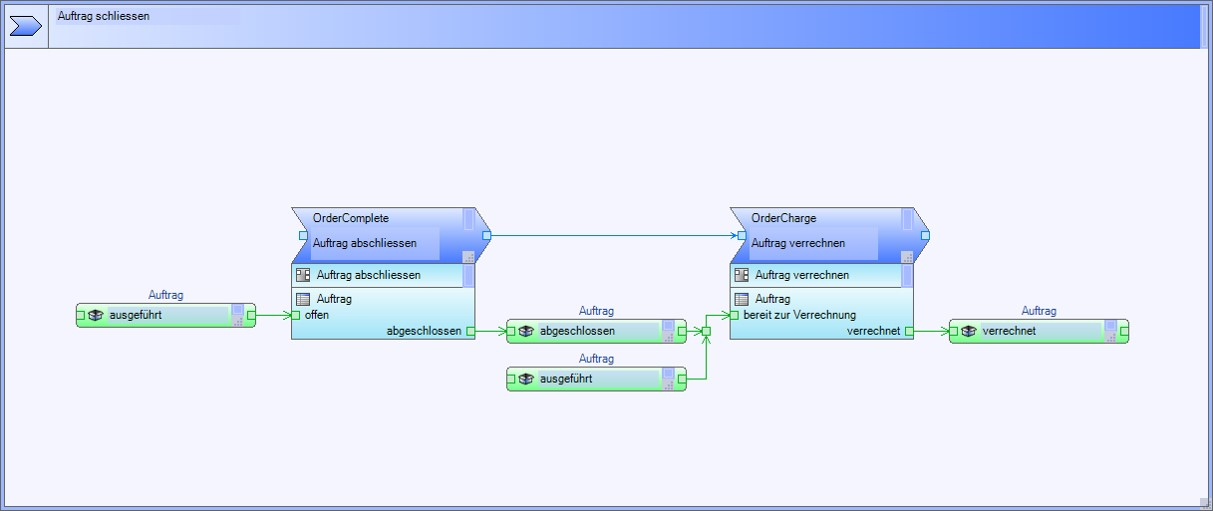 Process Diagramm with workflow and status flow.